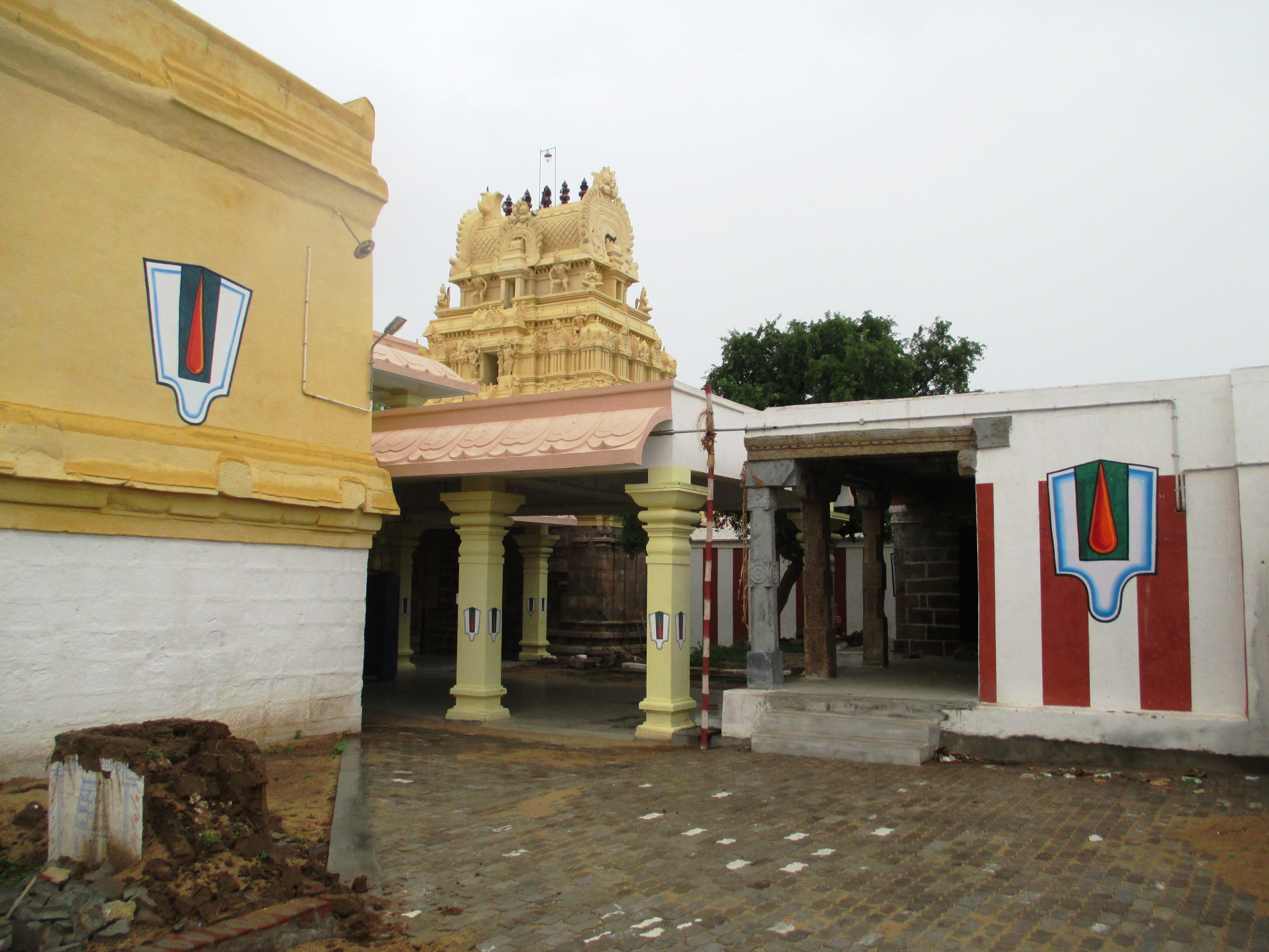 Appakkudathaan Perumal Temple